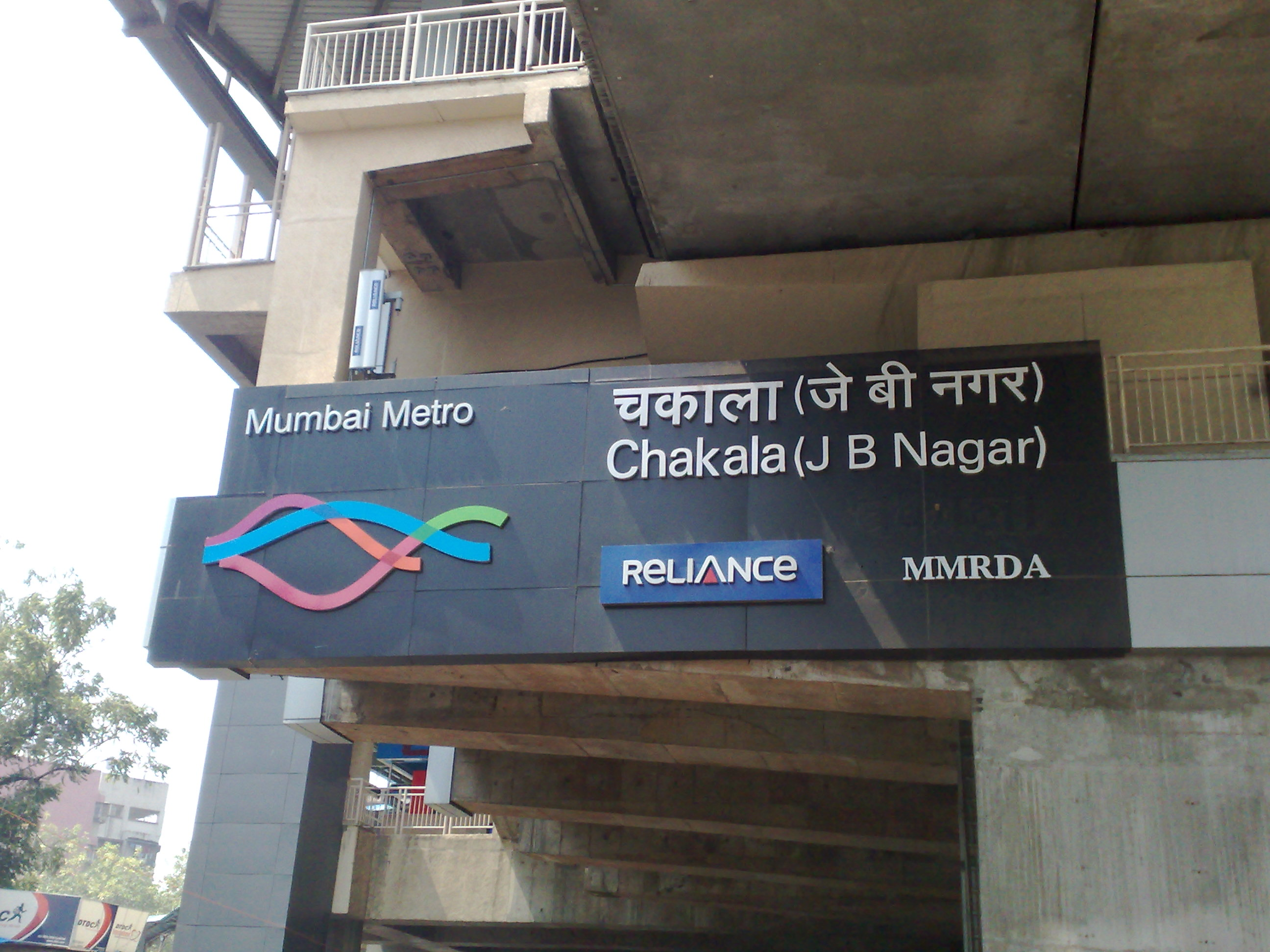 Chakala (J.B.Nagar) Metro station - 2